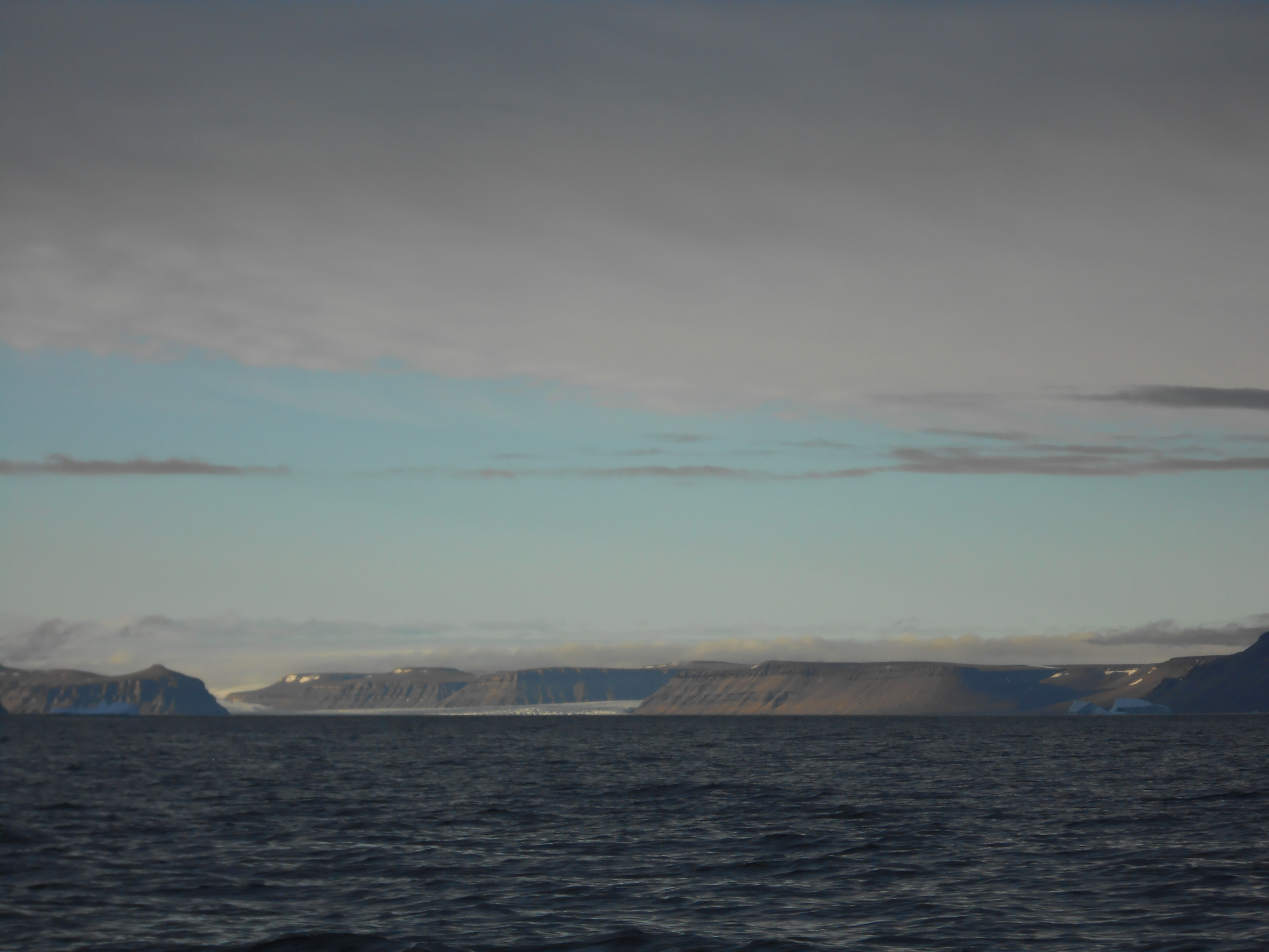 Croker Bay from the Sea - looking North